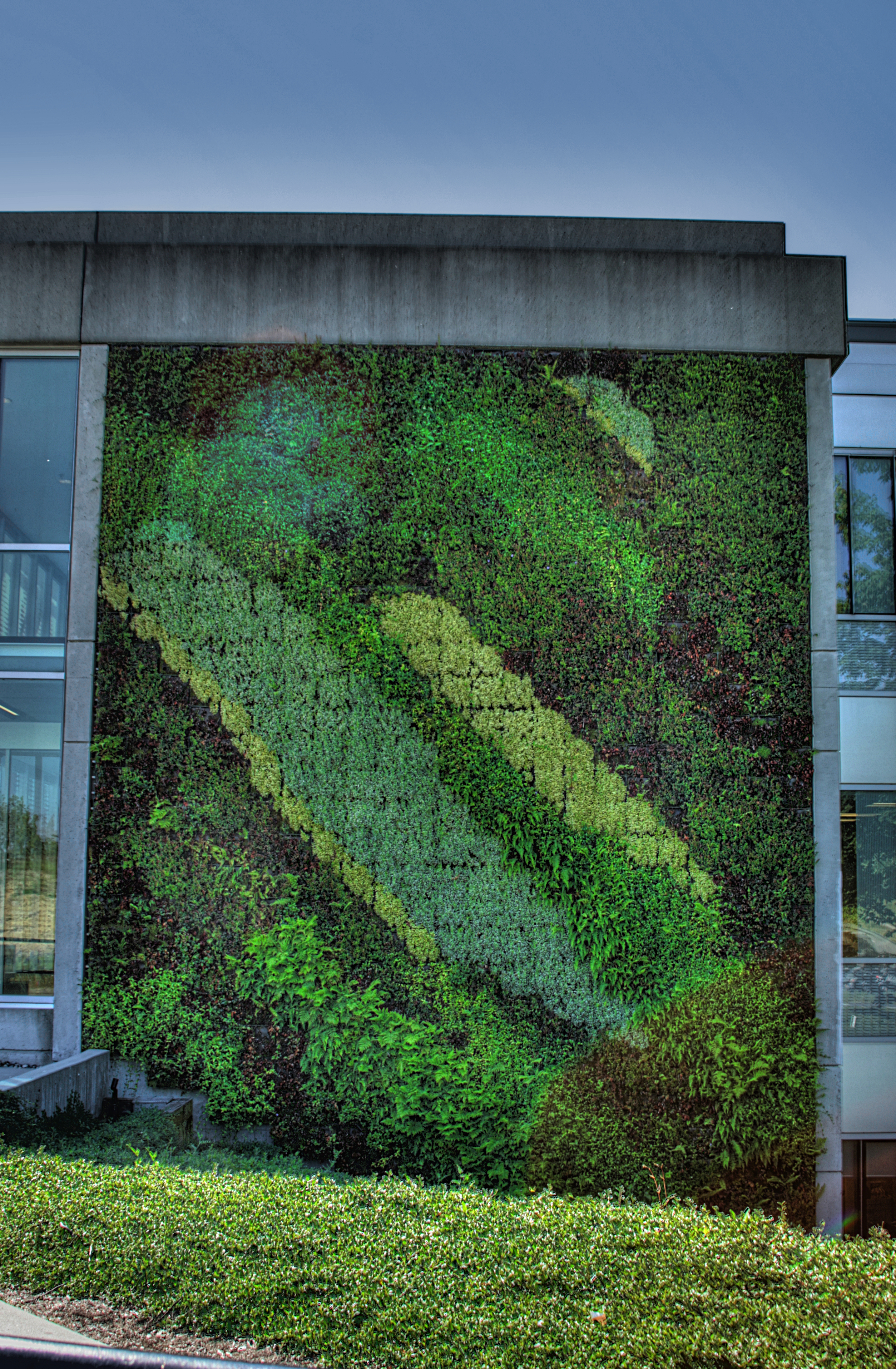 Green wall of live vegetation on Blusson Hall, Simon Fraser University, Burnaby, British Columbia, Canada.